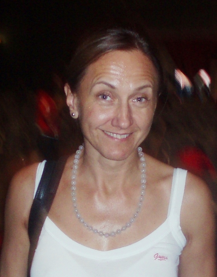 Picture of Claudia Penoni taken in Rimini, August 2008